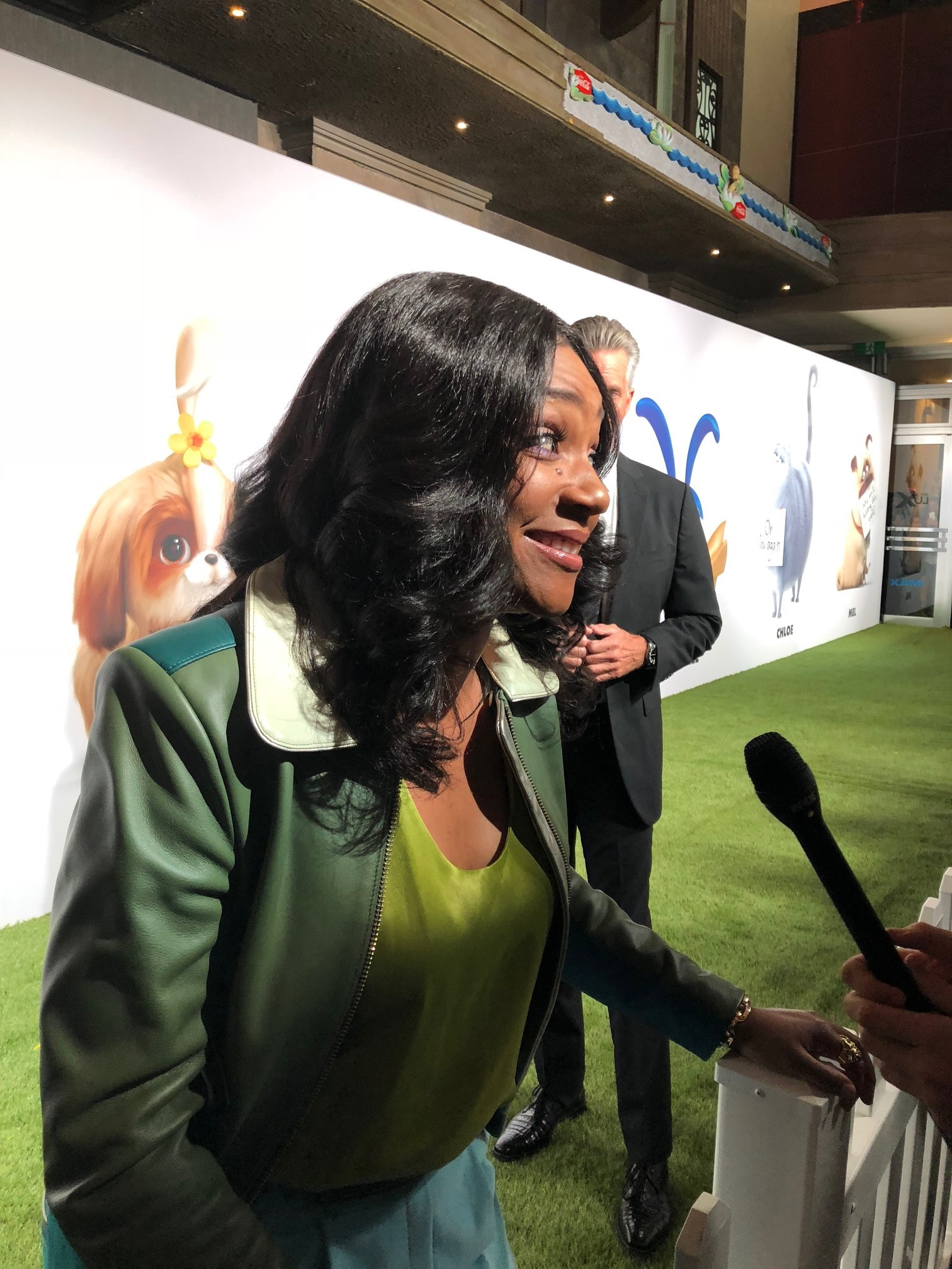 Tiffany Haddish at The Secret Life of Pets 2 premiere in Sydney